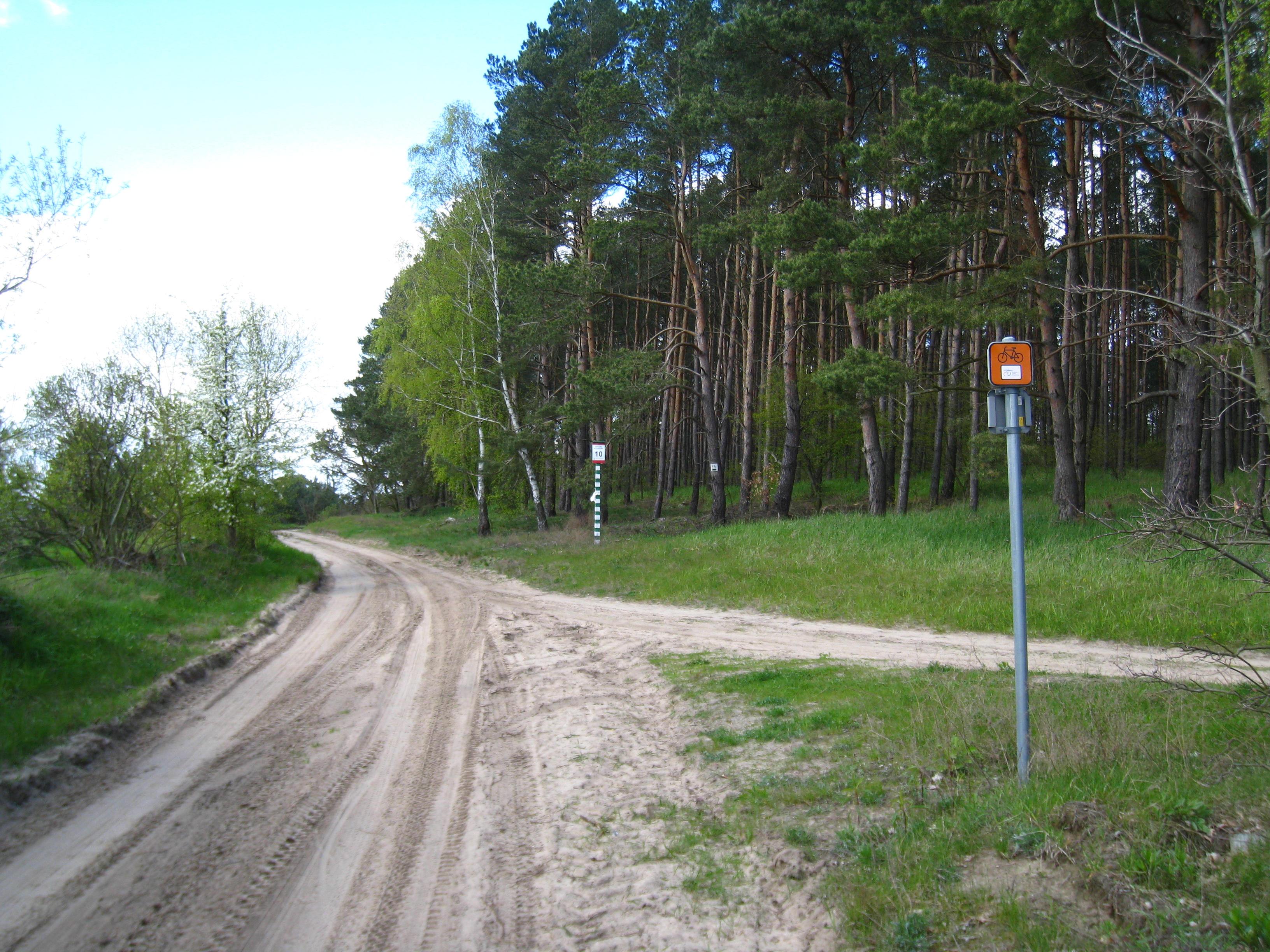 Vistula river bike trail near Zablocie